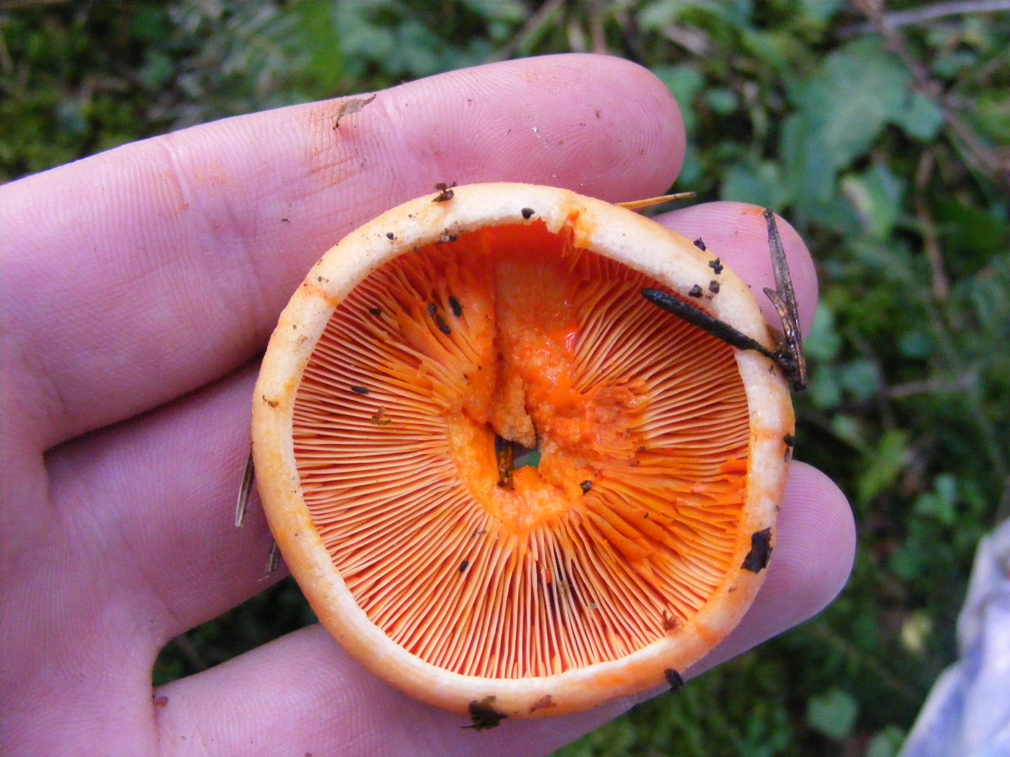 Lactarius semisanguifluus